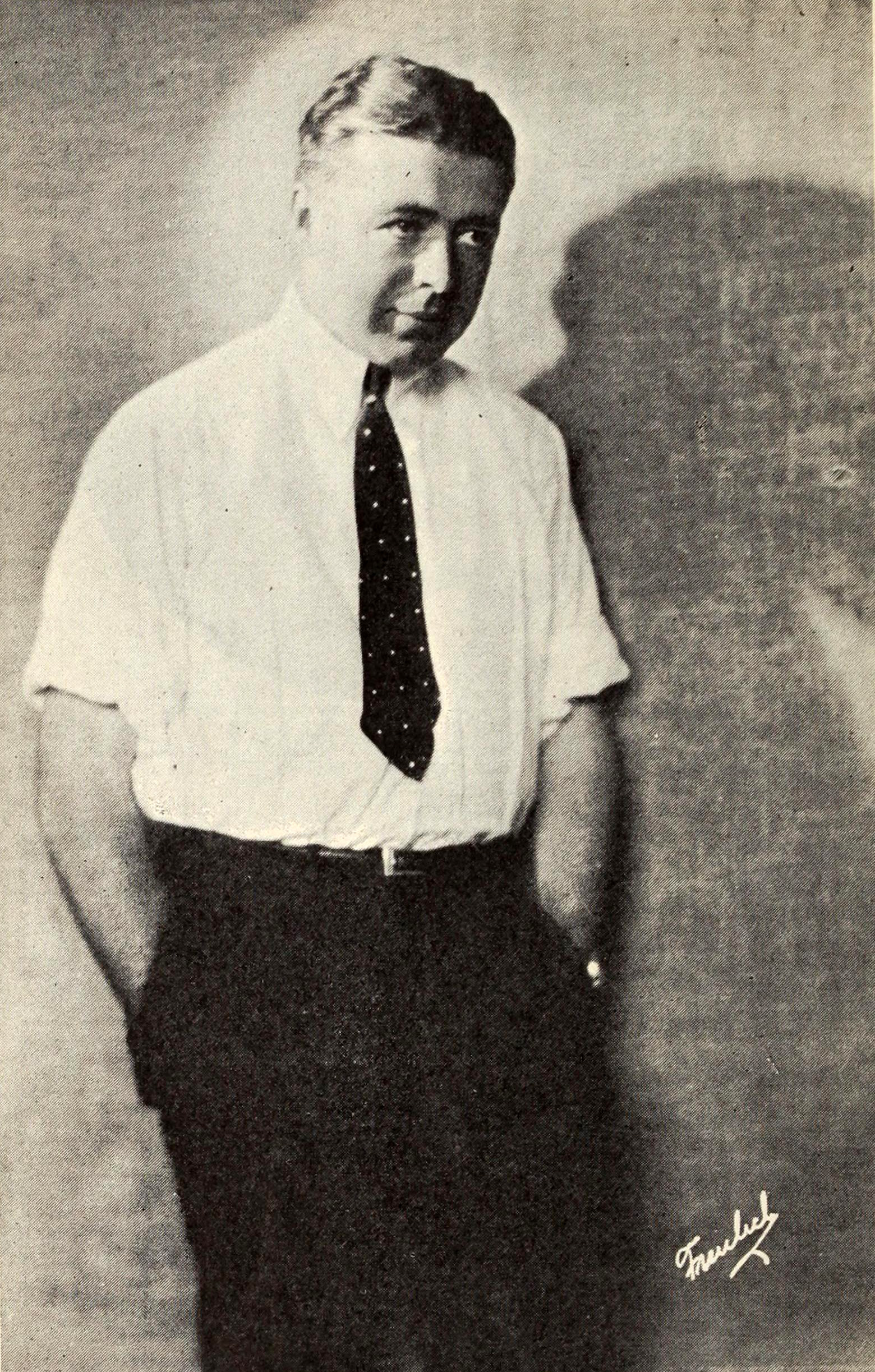 Promotional photo